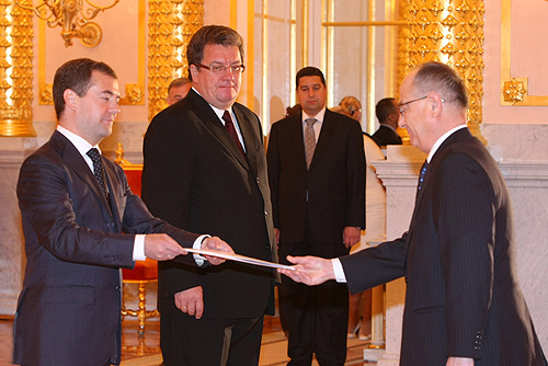 THE KREMLIN, MOSCOW. Ambassador of the Republic of Turkey Halil Akinci presents his letter of credentials to the President of Russia.